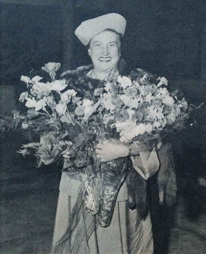 Helen Traubel at Haneda Airport.